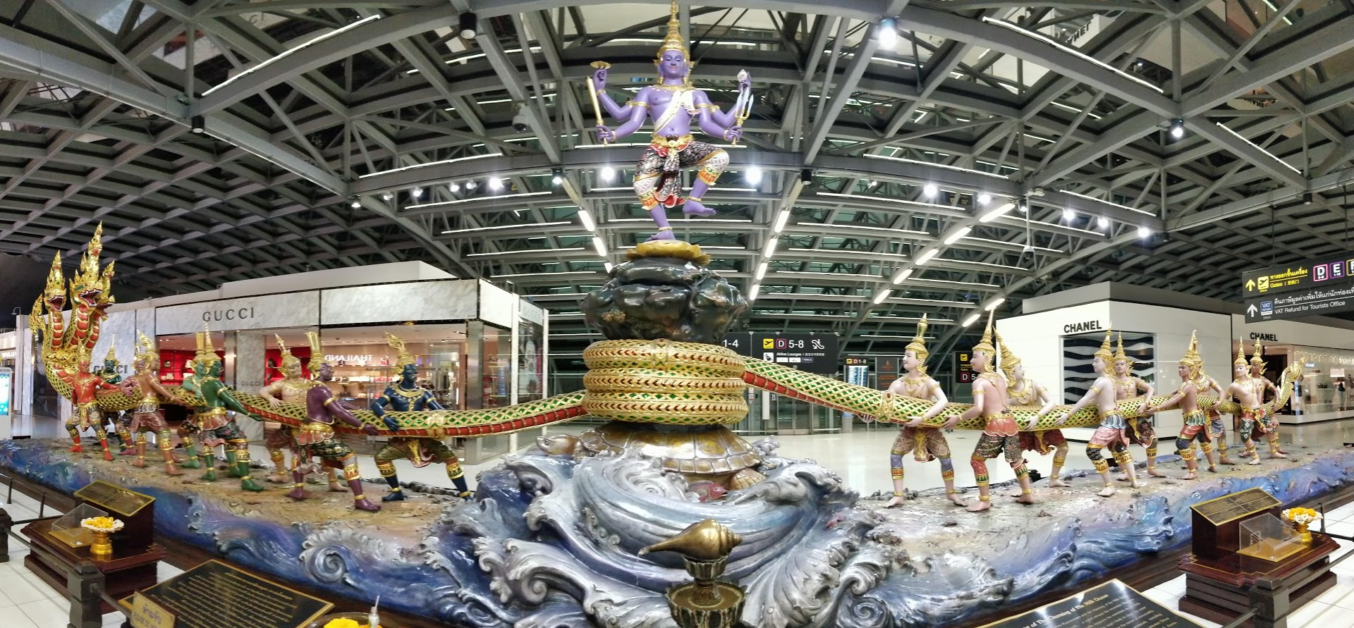 The Samudra Manthan scene is depicted in an art installation at Suvarnabhumi airport.